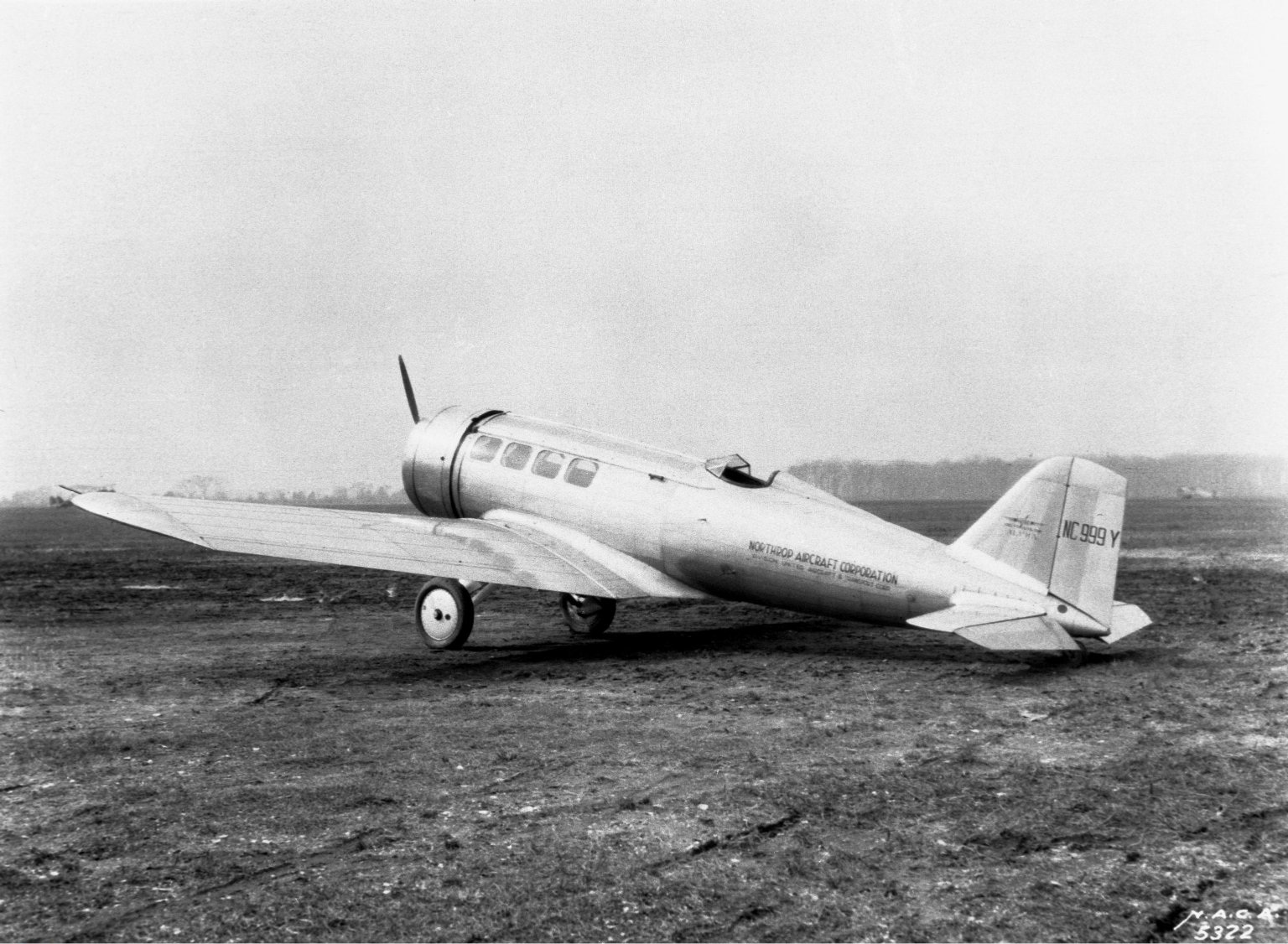 This Northrop Alpha fast transport made a brief visit to the Langley Memorial Aeronautical Laboratory in February 1931. One of Jack Northrop's earlier designs, it resembled some of the Lockheed products of the time which Northrop had helped design before starting his own firm.